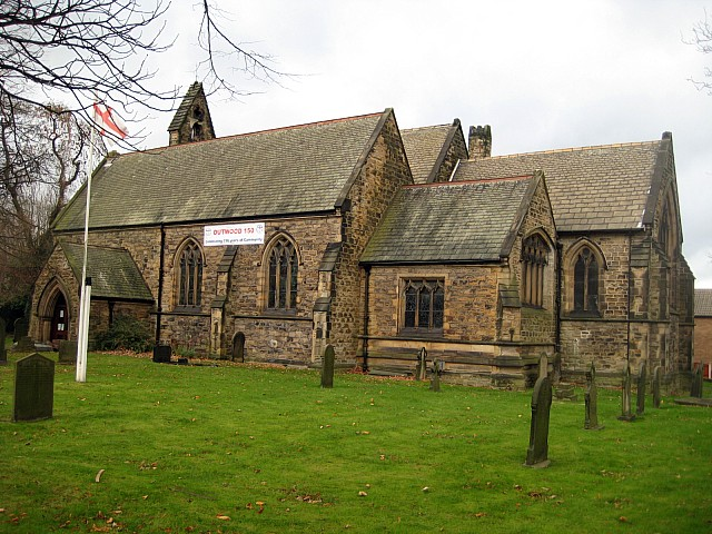 Parish church of St Mary Magdalene, Leeds Road, Outwood, West Yorkshire, seen from the southeast. Built in 1858 at a cost of about £2,500.